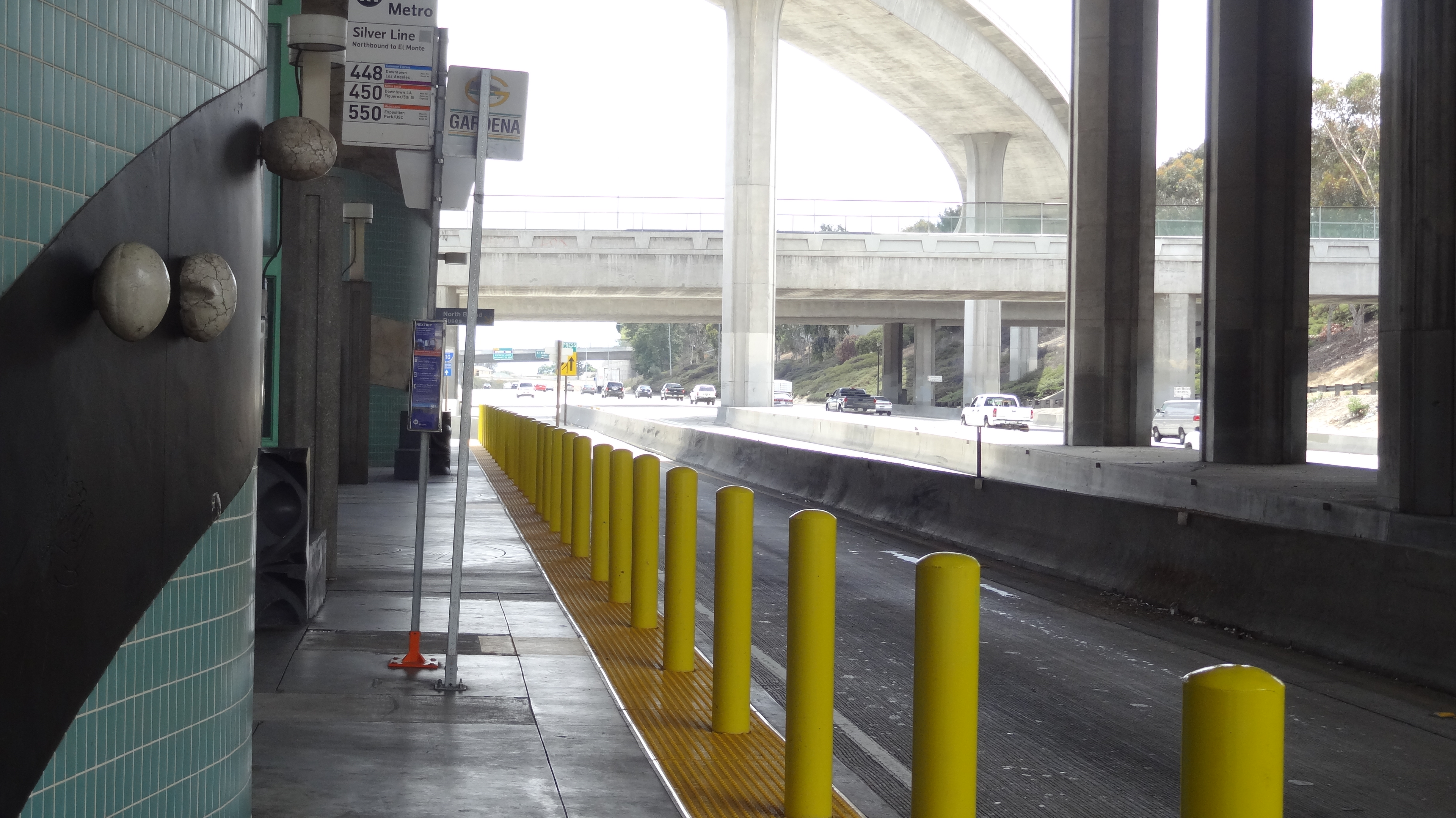 Harbor Freeway Station, Metro Silver Line northbound platform. Metro added a platform tiles as part of the Metro Express Lanes project in June 2013.